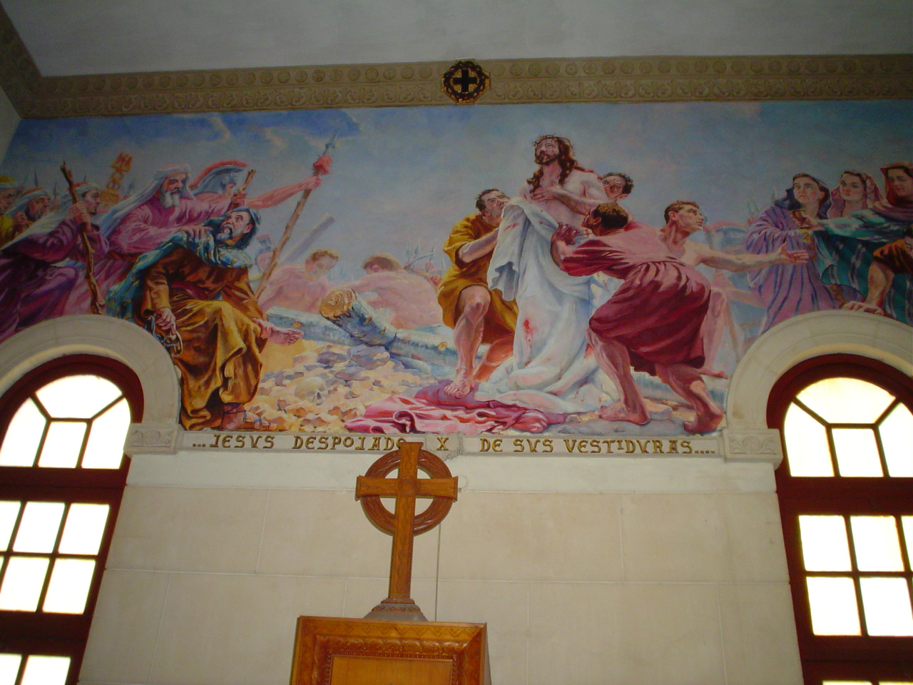 Painting of Stations of the Cross in Iglesia de Jesús de Miramar in Havana